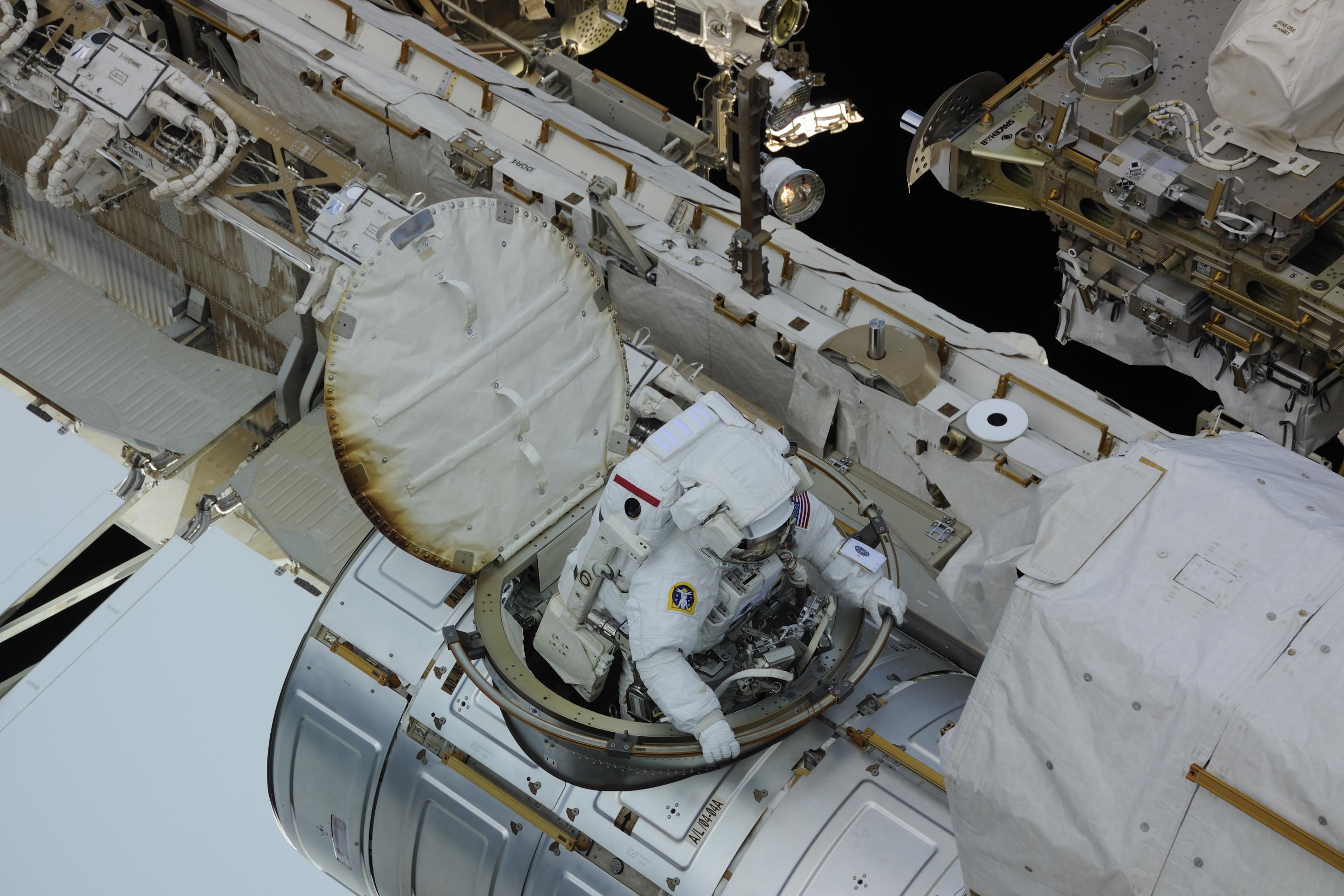 Reflecting on his experience as he emerged from the craft into the daylight on the Expedition 24 mission's second space-walk, astronaut Doug Wheelock said "the colours of the Earth just explode at you as you exit toward the planet. Notice what looks like scorch marks on the hatch thermal cover, the effect of vacuum and atomic oxygen on the threads and thread sealant used on the thermal cover. The 'smell' of space follows suit, I’ve heard it described like burnt cake or cookies, or like the smell of an extinguished match."